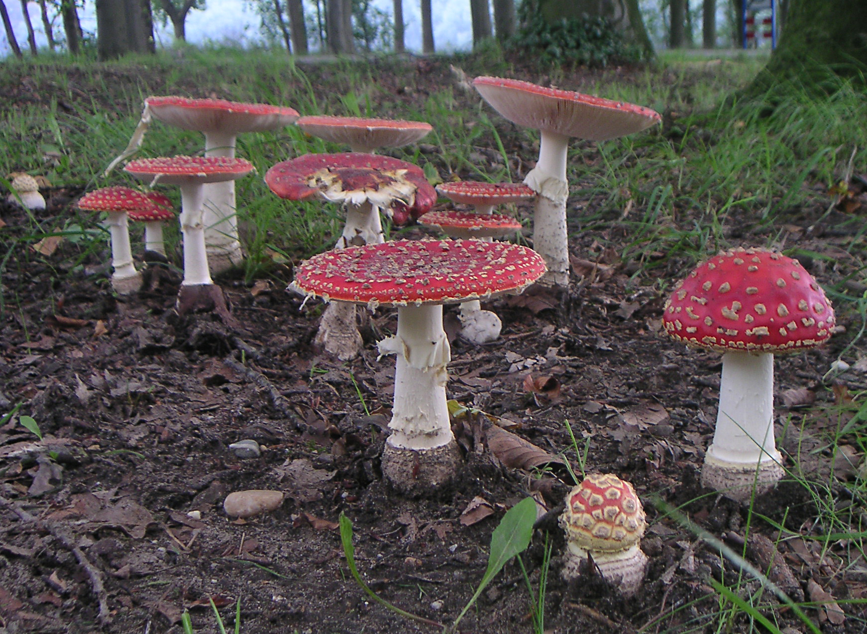 Amanita muscaria mushrooms in a group